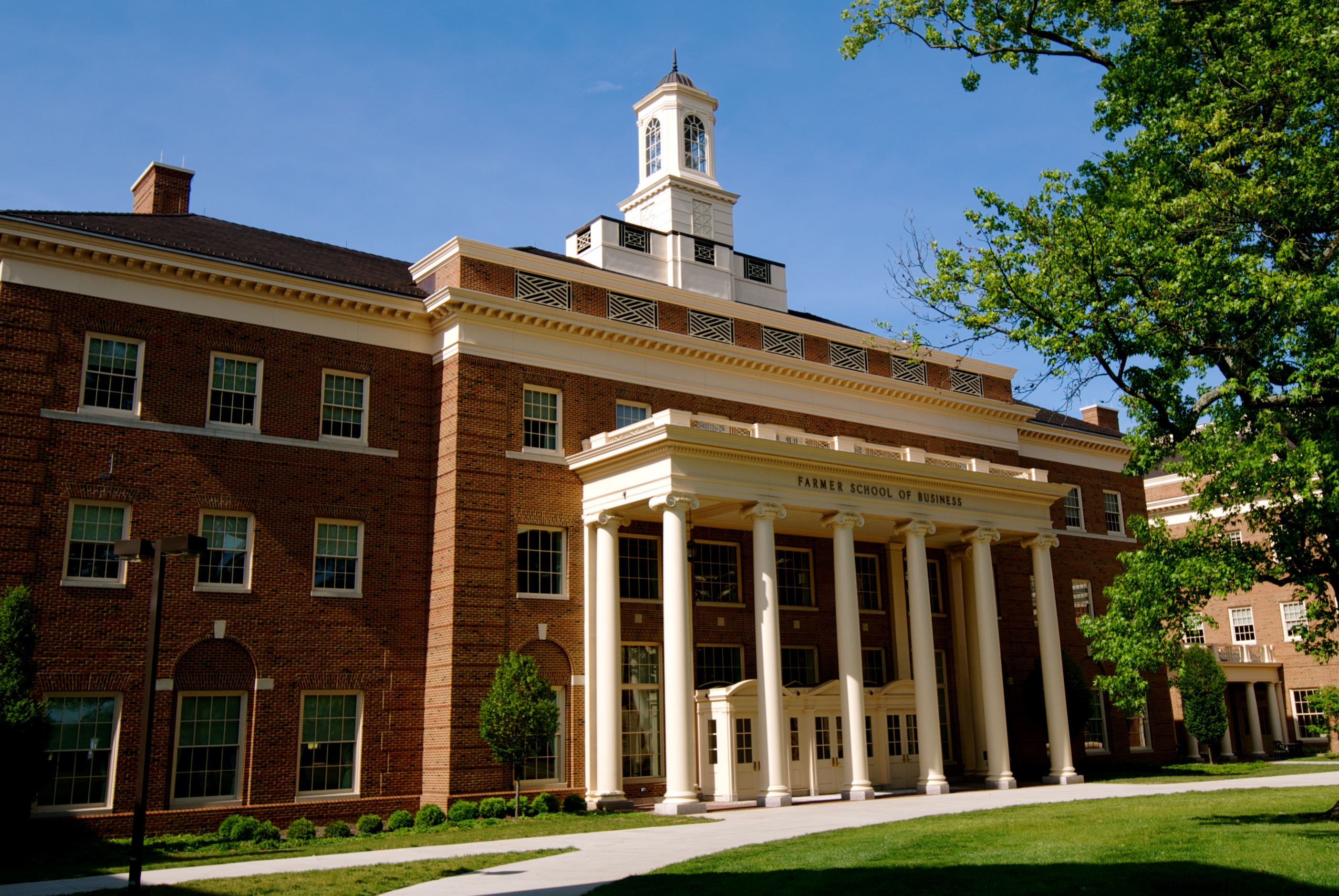 The Farmer School of Business at Miami University